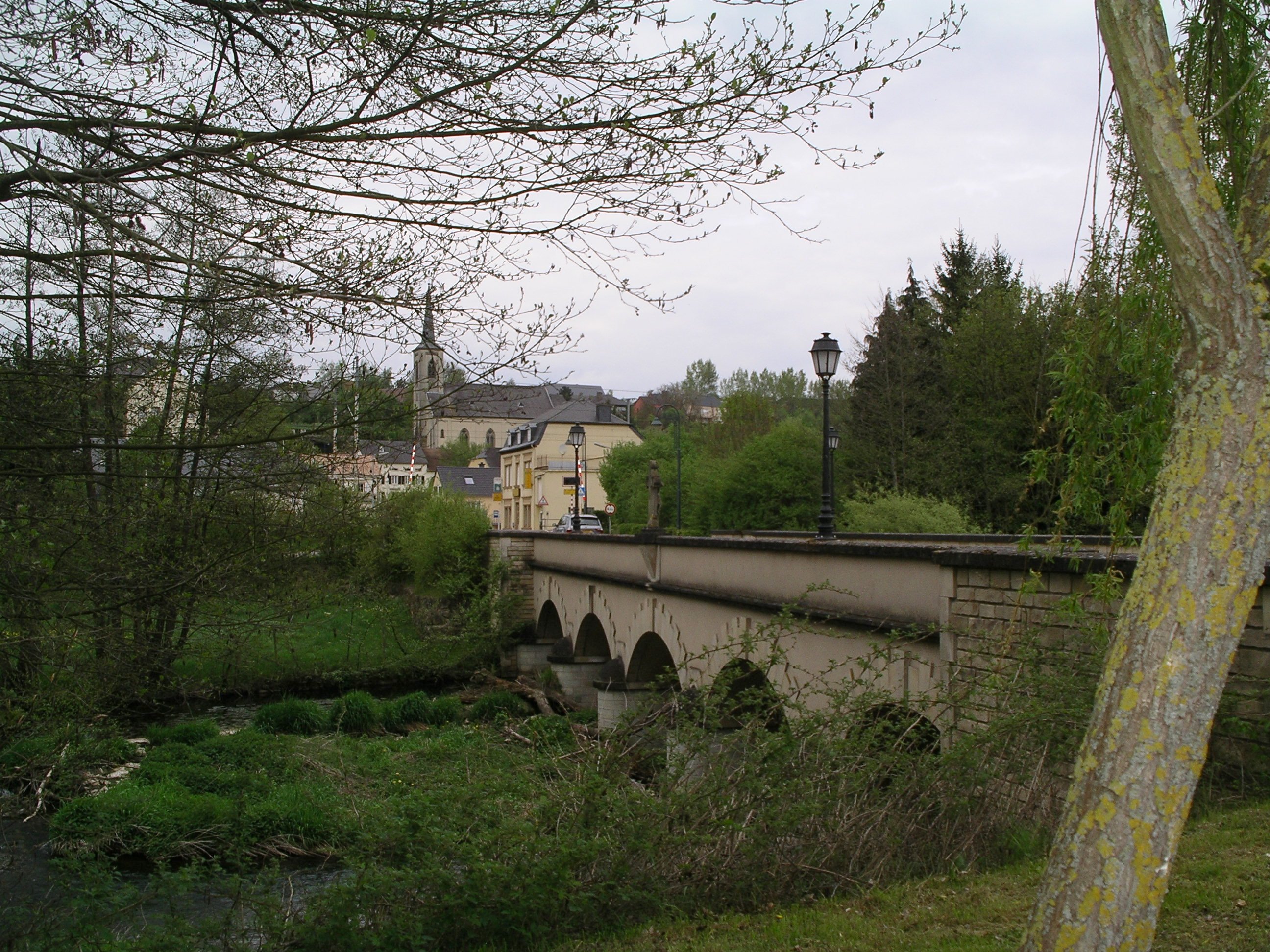 View of Manternach, municipality in Luxembourg, and the bridge over the Syre river